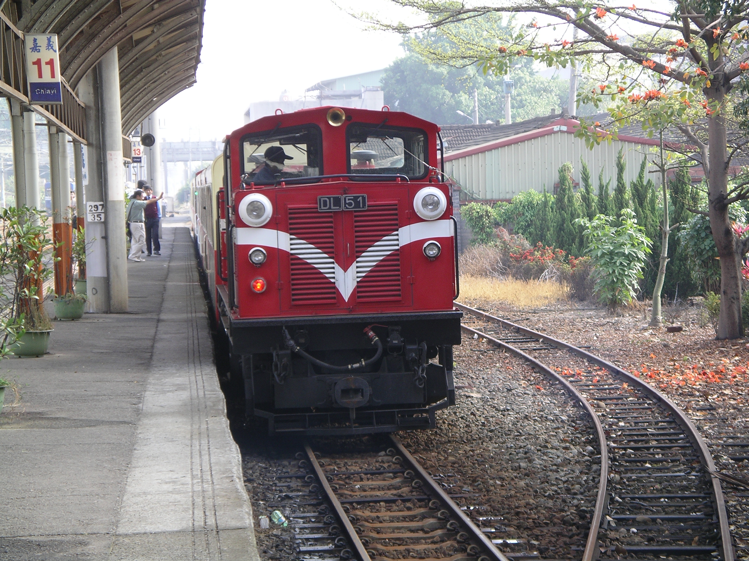 Railway station Chiayi in Taiwan with Alishan Railway train.